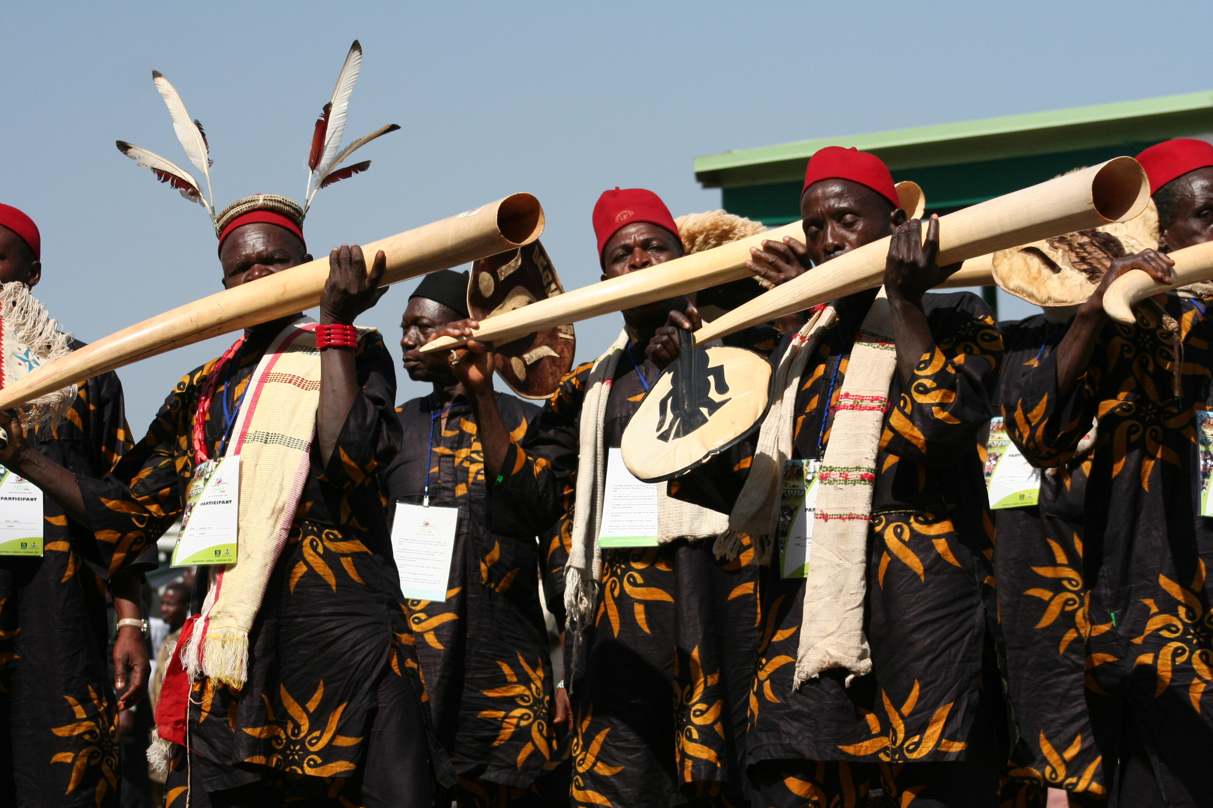 Elephant tusk players from Eastern Nigeria